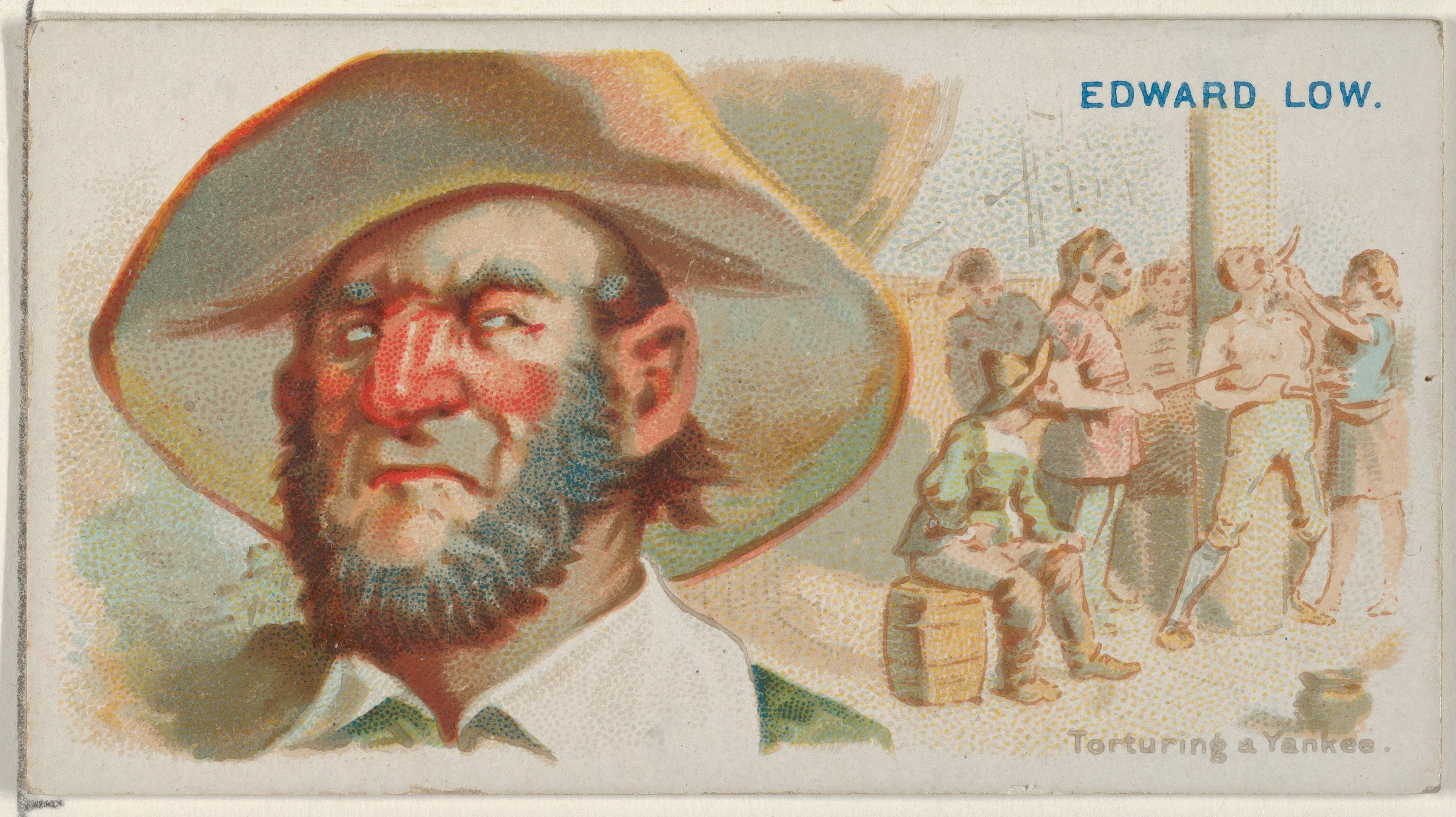 Print; Prints